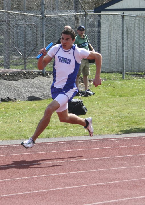 Grayson running the first leg of the 4x100 at the 2010 Tigered invite